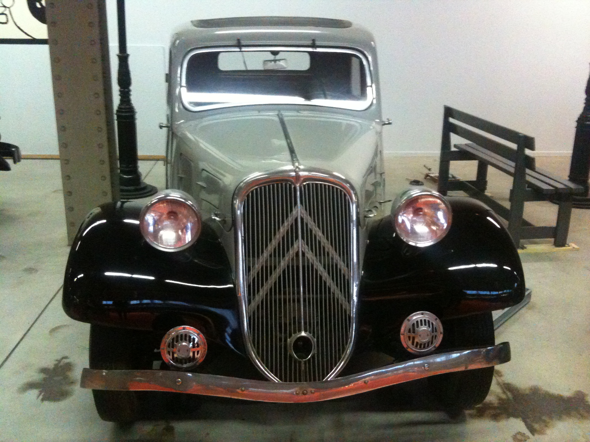 Photo taken in Autoworld, Brussels.